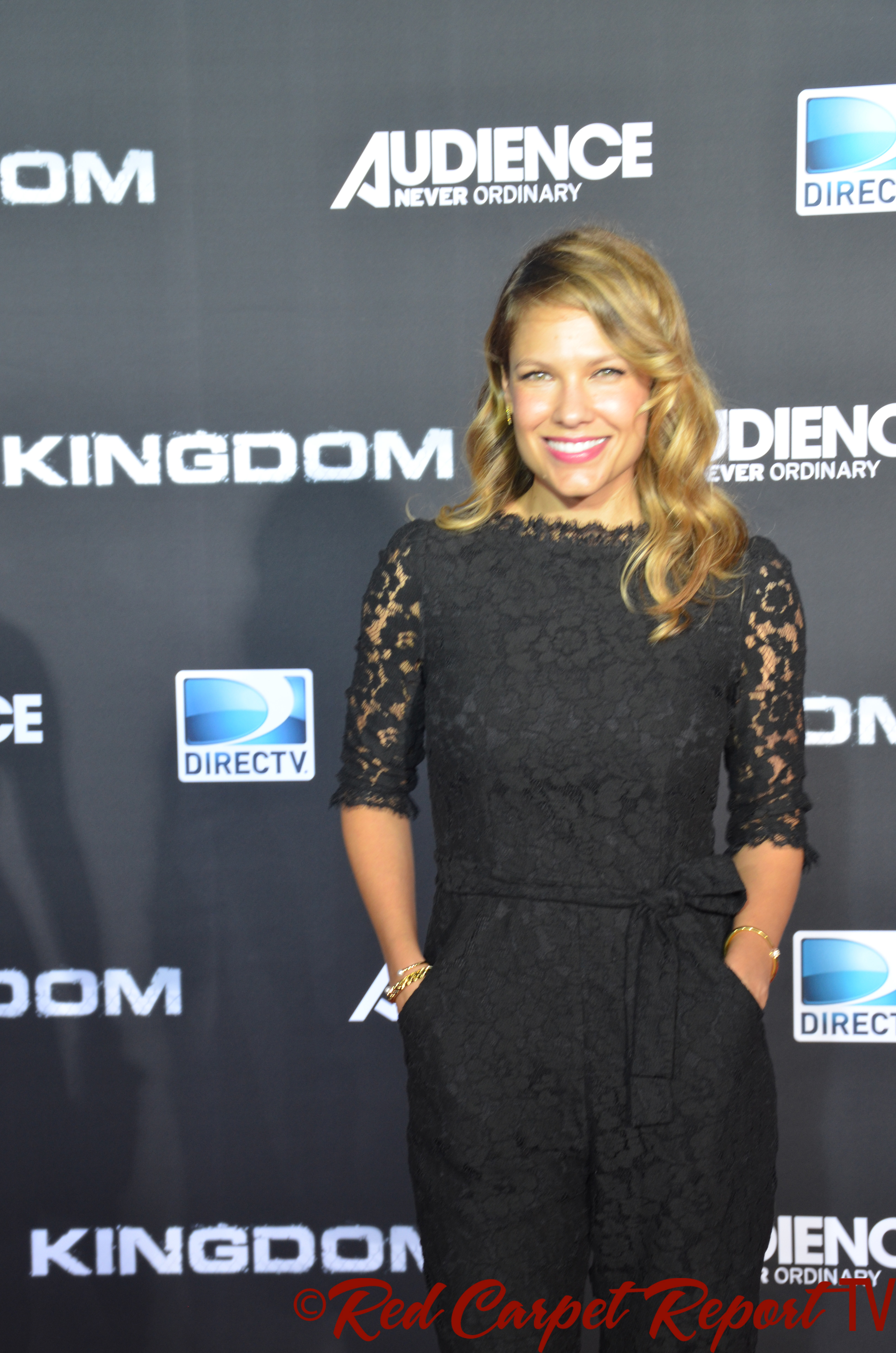 Kiele Sanchez at the DIRECT TV series premiere of "Kingdom" on October 1, 2014